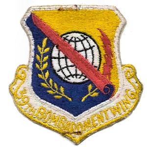 Emblem of the USAF 39th Bombardment Wing